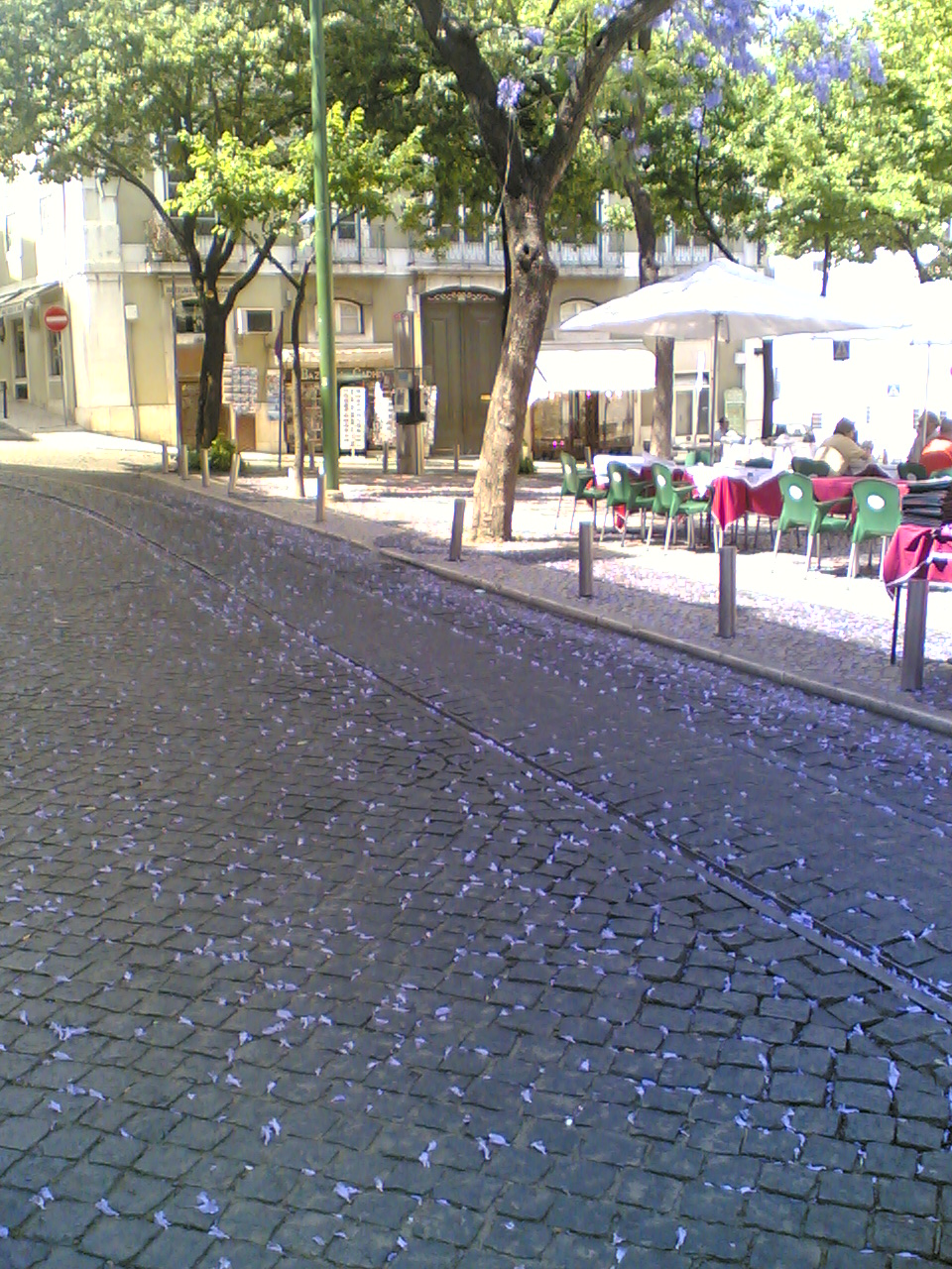 Jacaranda flowers on the floor of Largo do Carmo in Lisbon